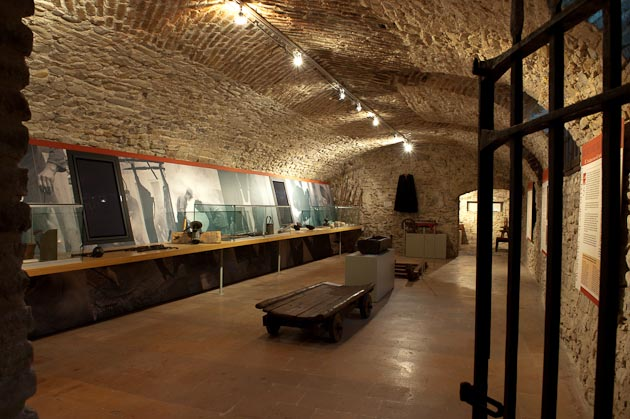 Museum of the Felino's salami - Felino (PR) - Italy